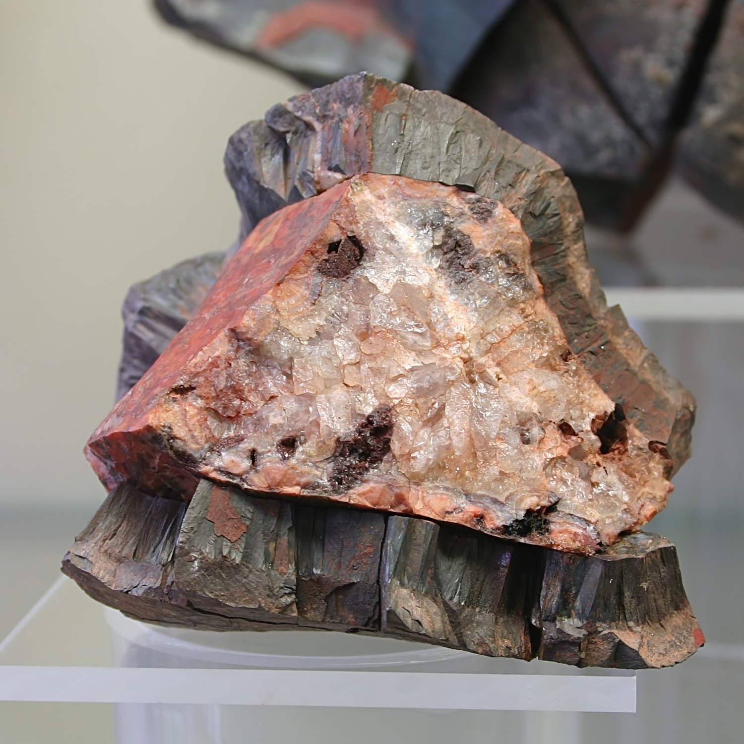 Hematite fibrous. Locality: Irrgang (Bludná), Bohemian Erzgebirge. Exposed in the Mineralogical Museum, Bonn, Germany